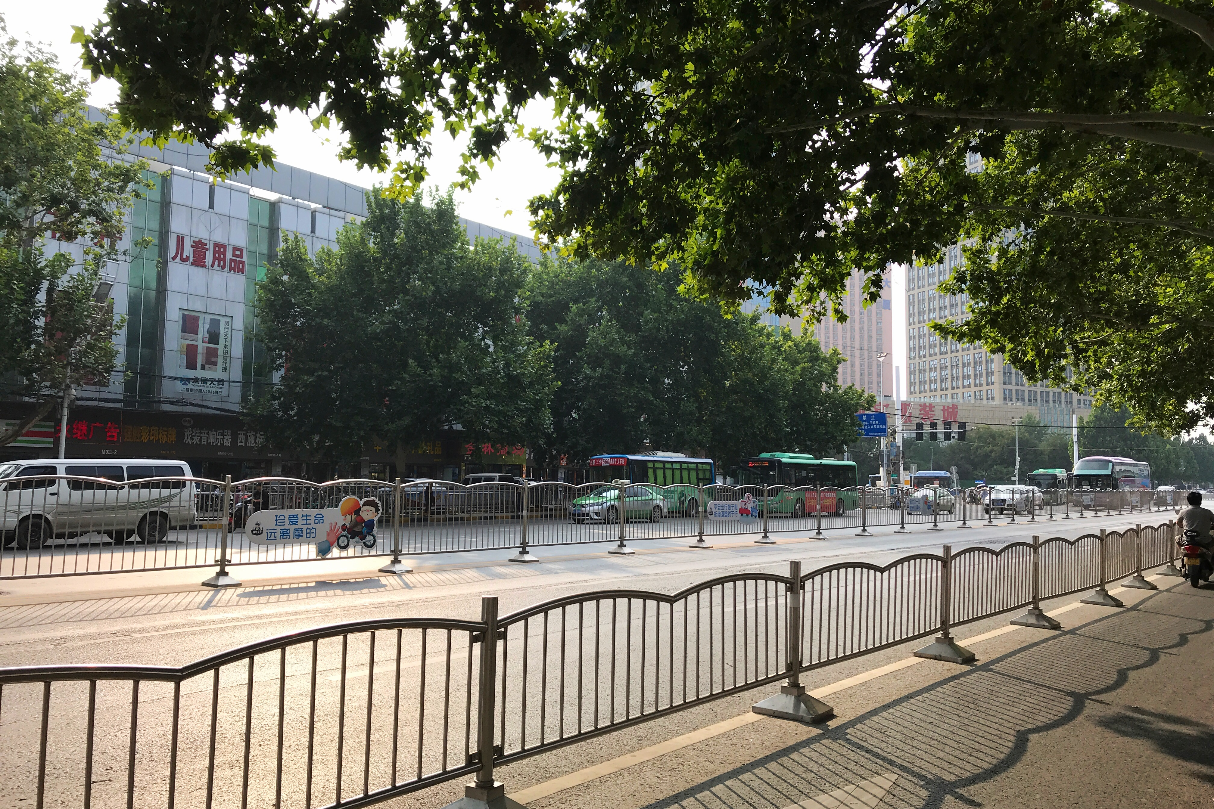 Fushou Street in Zhengzhou, near Zhengzhou Railway Station